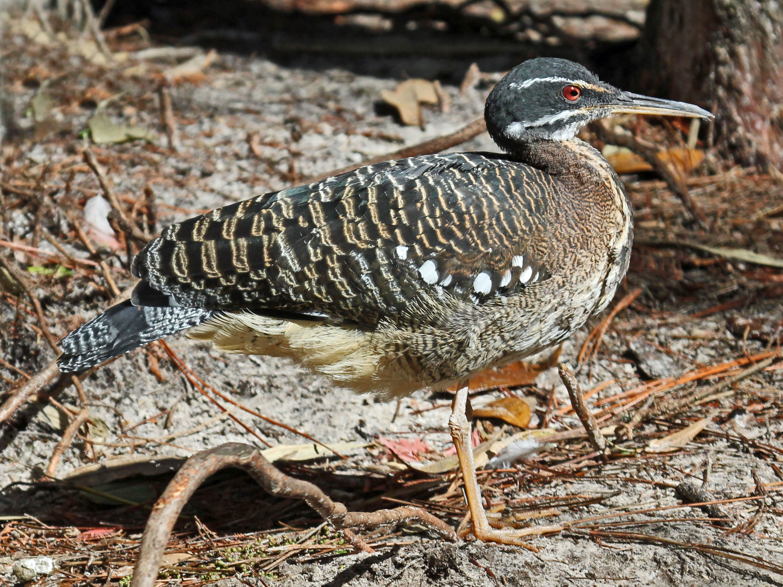 Sunbittern at Tampa's Lowry Park Zoo